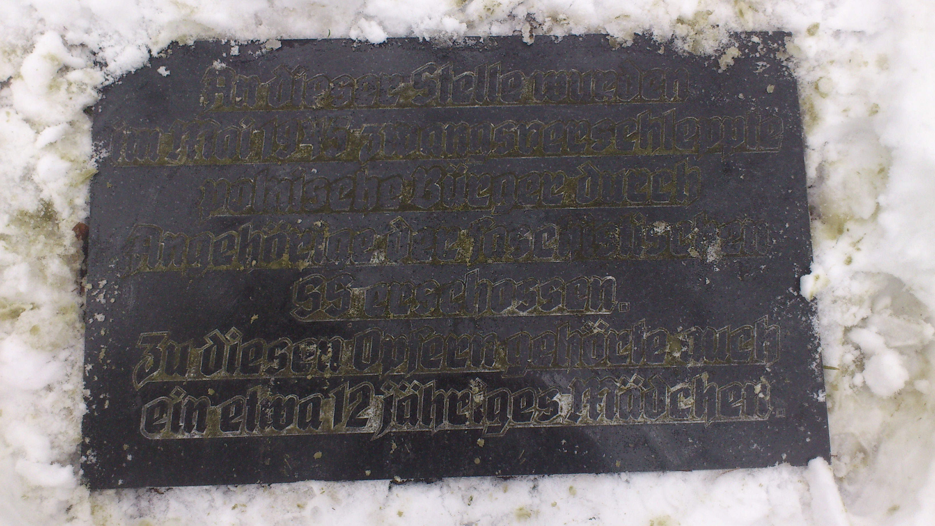 Memorial Stone of the Memorial Schacht Schermen